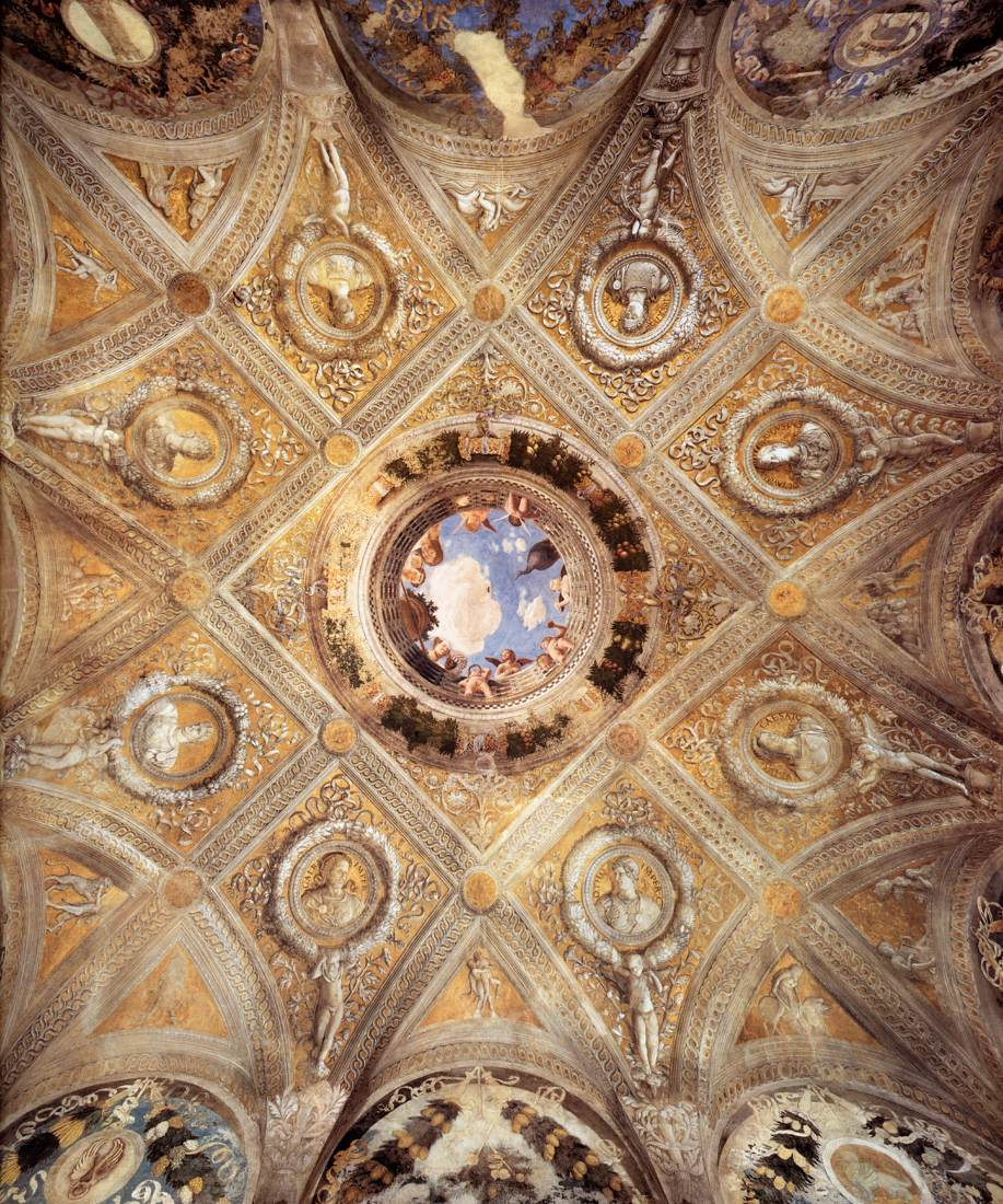 eight busts of emperors in medallions